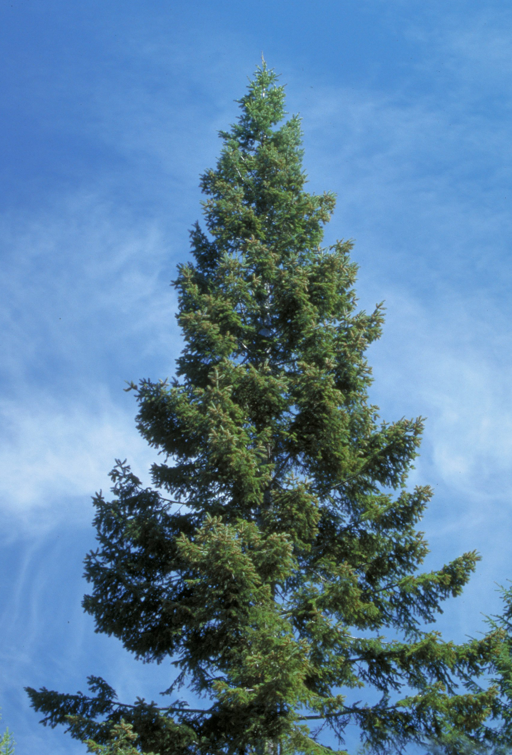 Abies grandis subsp. idahoensis, crown of young tree. Idaho.